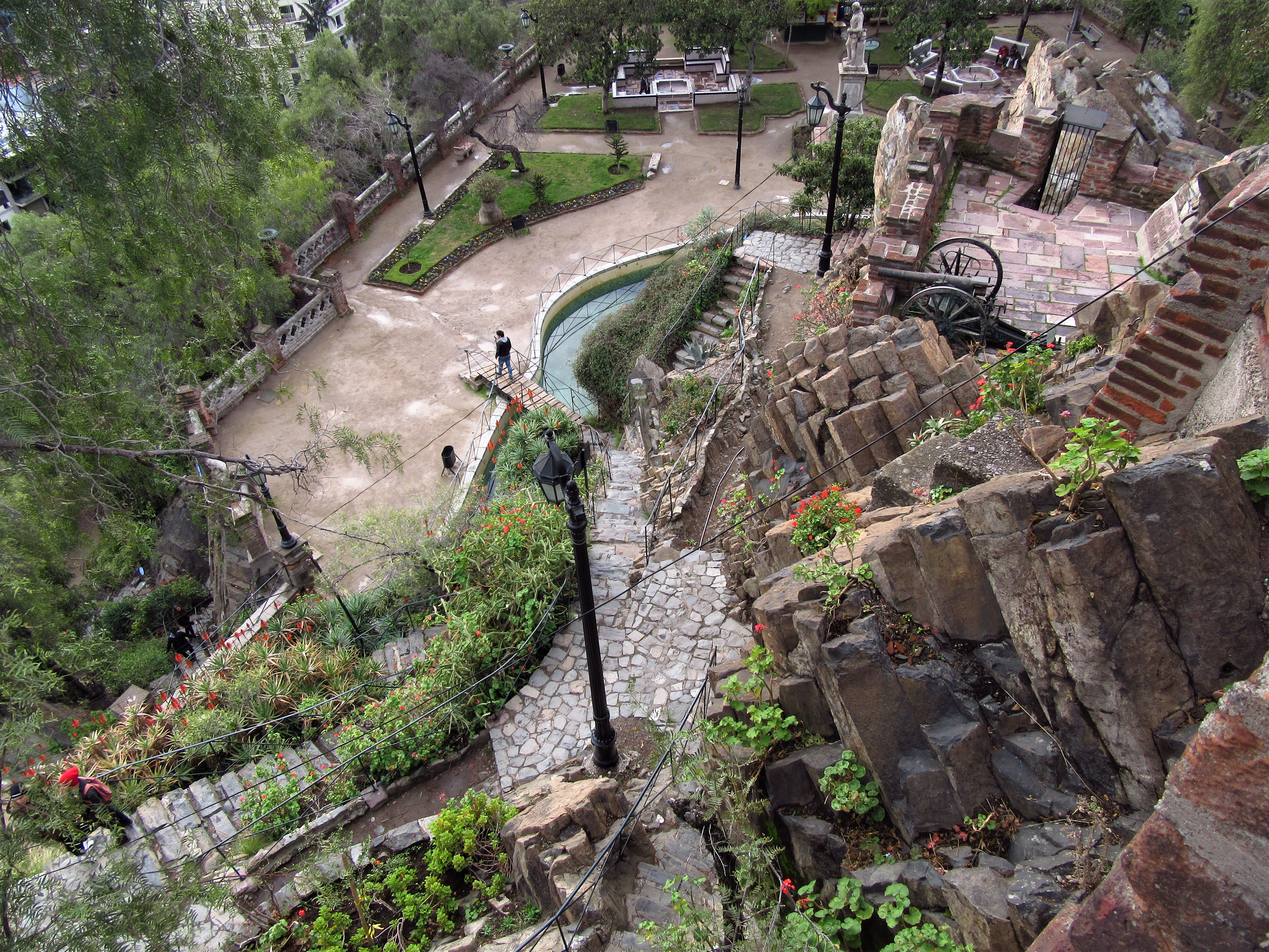 2017 in Santiago de Chile